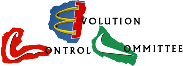 I have obtained written permission from the image's creator: Mark Gunderson "Go ahead and use anything from the website at all; anything there is free." At 06:22 AM 8/27/2007, you wrote: Hey Mark, some Wikipedia editors are getting pissy about image copyrights. Would you mind providing a quote I could put on the images I uploaded from your website? Something to the effect of “I’m Mark Gunderson and I approve this image.” Thanks! Have fun at the burn! (jealous) -Nathan Hi Nathan; you have the permission of myself (TradeMark Gunderson) and The Evolution Control Committee to use materials of all kinds (including images, audio, video, and text) in any way you see fit. Such as Wikipedia. Thanks! - TradeMark G. :.e.c.c.: -- "It was twenty years ago today..." or The Evolution Control Committee Established 1987 SKYPE: trademarkg ... ICQ: 1353166 ... AIM: TradeMarkECC MYSPACE: ... YAHOO: evolution_controlled_creations TRIBE: ... GMail/GTalk: Aelffin 15:28, 9 September 2007 (UTC)